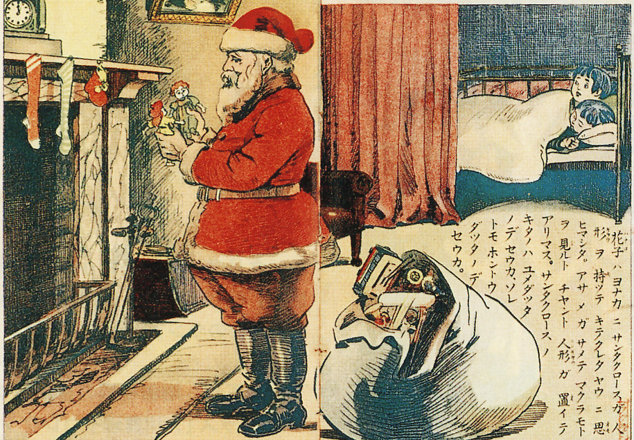 1914 Santa Claus in Japan